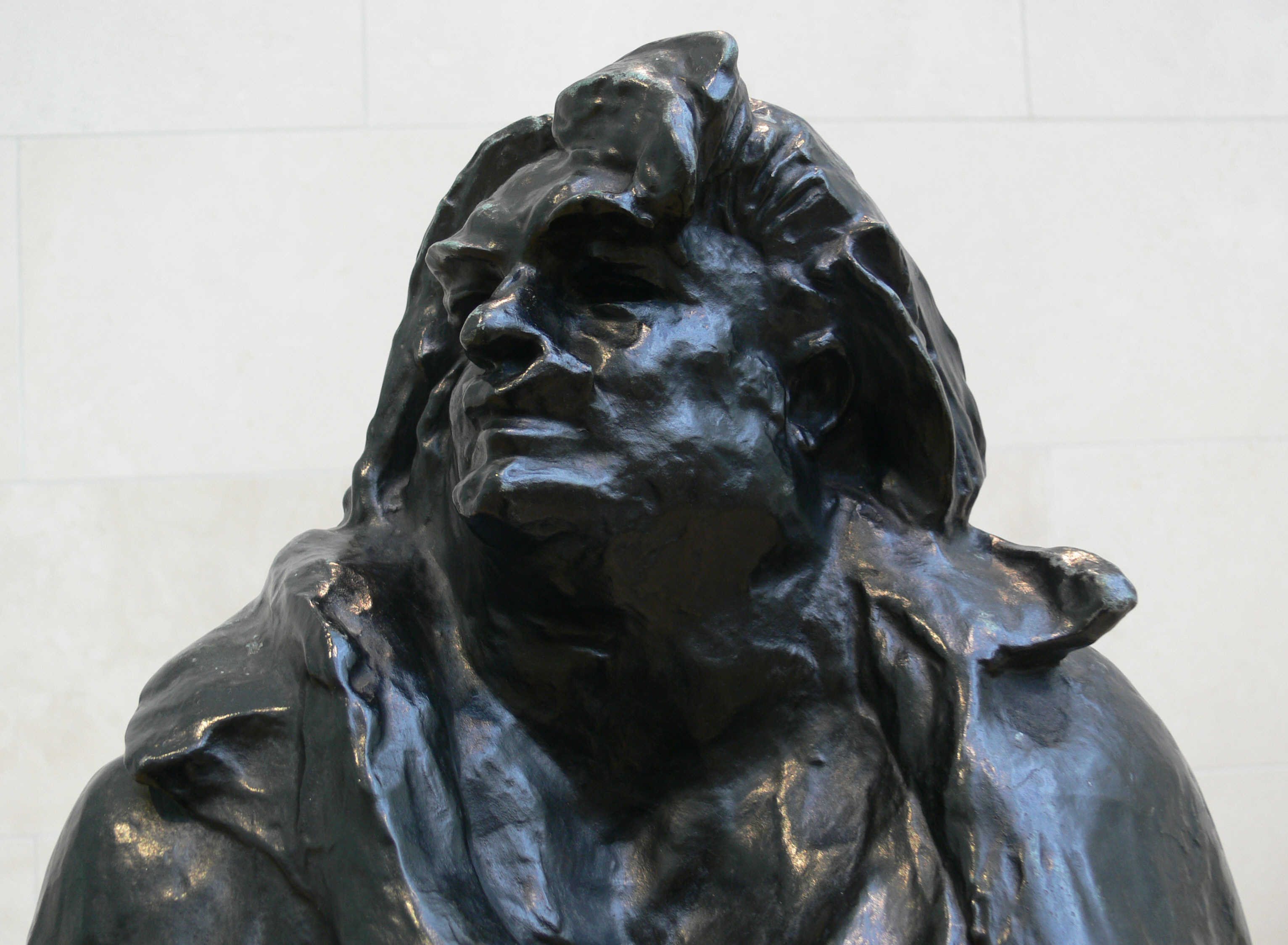 Auguste Rodin: Portrait statue of Honoré de Balzac, detail; Nasher Sculpture Center, Dallas, Texas